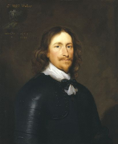 General Sir William Waller (c1597-1668), 1643 portrait by Cornelis Janssens van Ceulen, National Portrait Gallery, London, NPG 5819